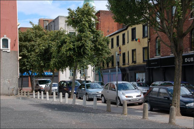 Gresham Street, Belfast. Gresham Street used to be famous for its second-hand bookshops, jewellery and pet shops. Part was demolished to make way for the Castlecourt shopping centre. Now rather grim and seedy it awaits the extension to the Castlecourt as Dracula awaits Van Helsing. The view is towards Upper North Street. Continue to 1761515.